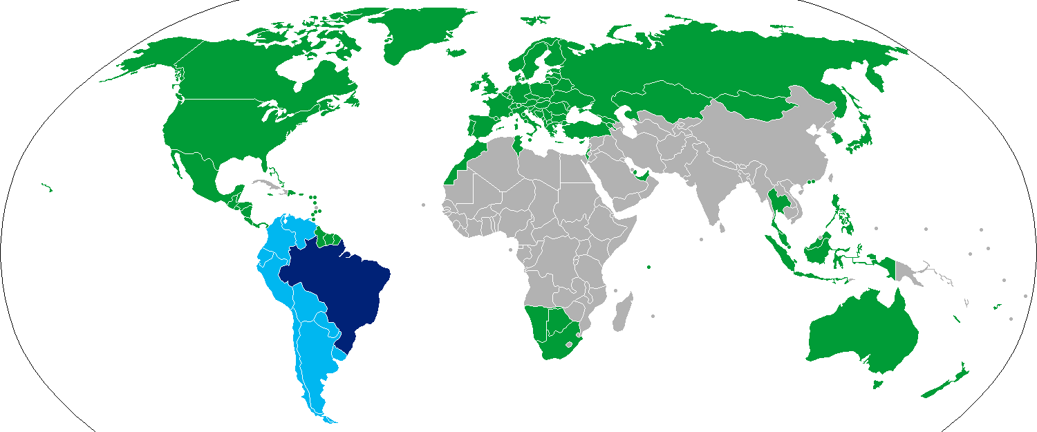 Visa policy of Brazil Brazil Entry with identity cards possible Visa exemption Visa must be obtained in advance